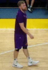 Tyrone Nash with Ironi Nahariya, May 2018